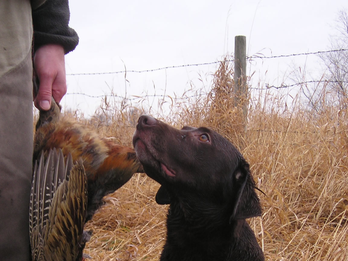 Hunter and dog with their catch.